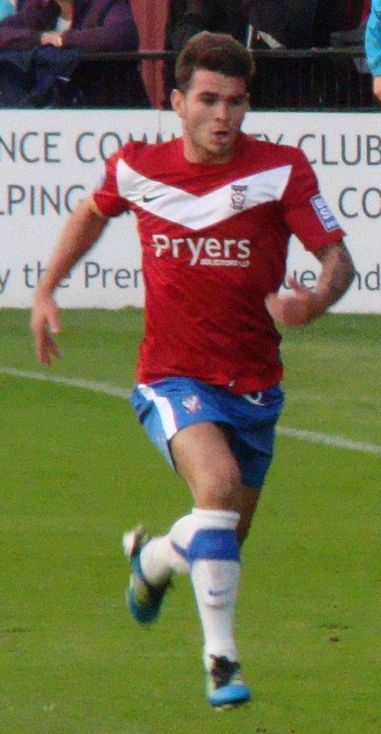 Michael Potts. Image cropped from original at flickr.